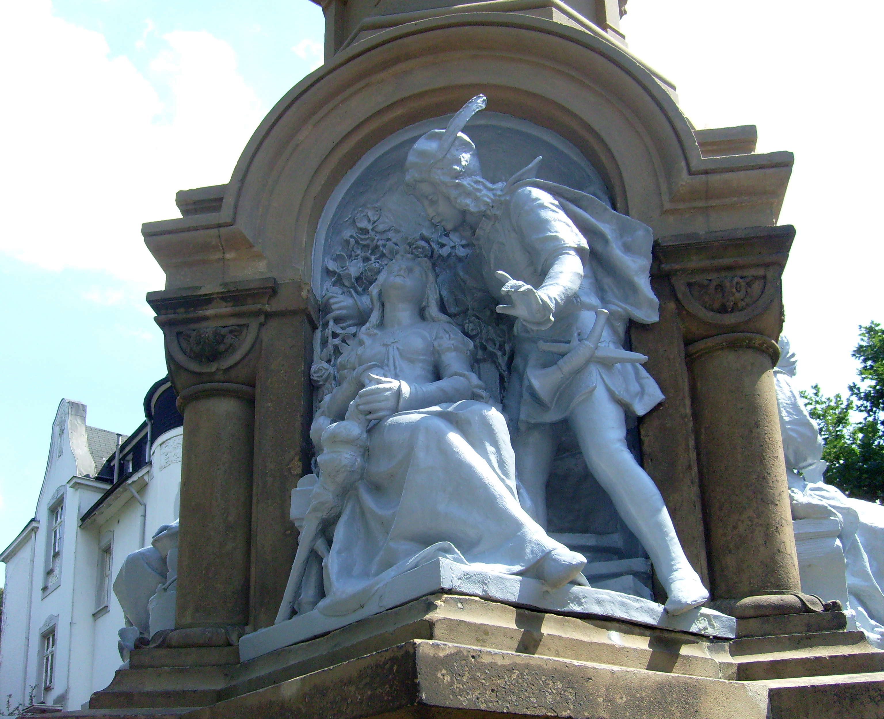 Fairy tale fountain at Wuppertal - Germany